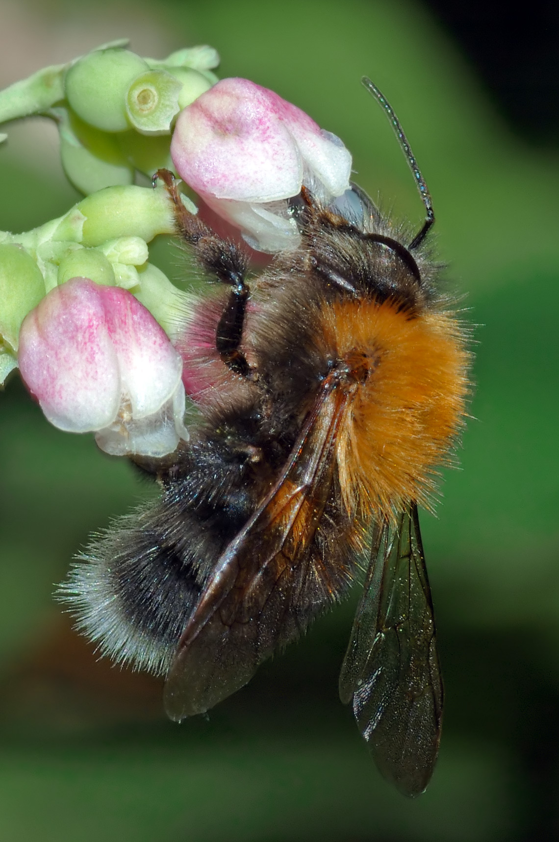 This image shows a Bombus hypnorum bumblebee male.